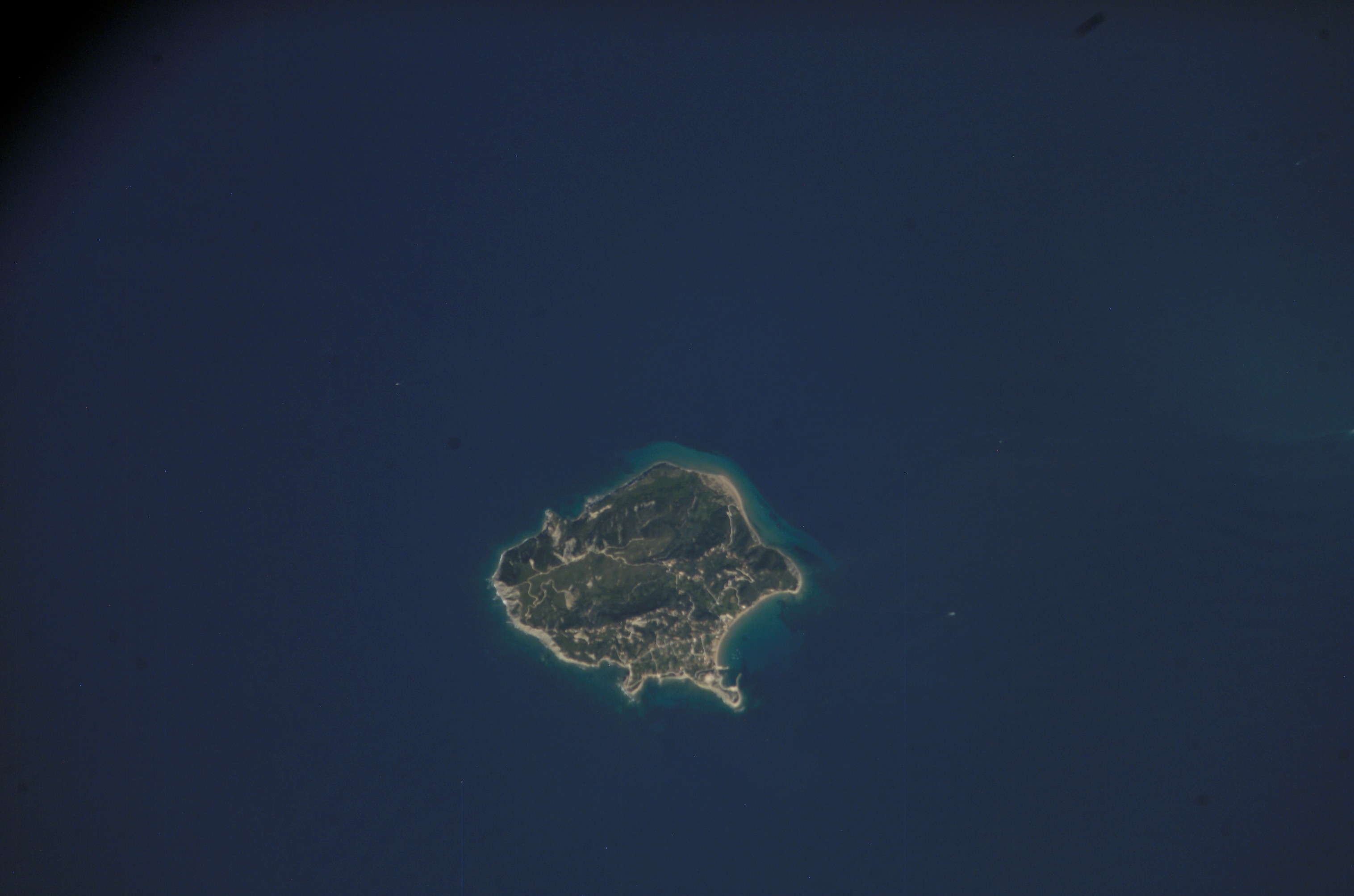 Mission: ISS013 Roll: E Frame: 75205 Mission ID on the Film or image: ISS013 Country or Geographic Name: GREECE Features: EREIKOUSSA,ROADS, FOREST Center Point Latitude: 39.9 Center Point Longitude: 19.6 (Negative numbers indicate south for latitude and west for longitude) Image Science and Analysis Laboratory, NASA-Johnson Space Center. "The Gateway to Astronaut Photography of Earth." (10/04/2009) . Send questions or comments to the NASA Responsible Official at Curator: Earth Sciences Web Team Notices: Web Accessibility and Policy Notices, NASA Web Privacy Policy